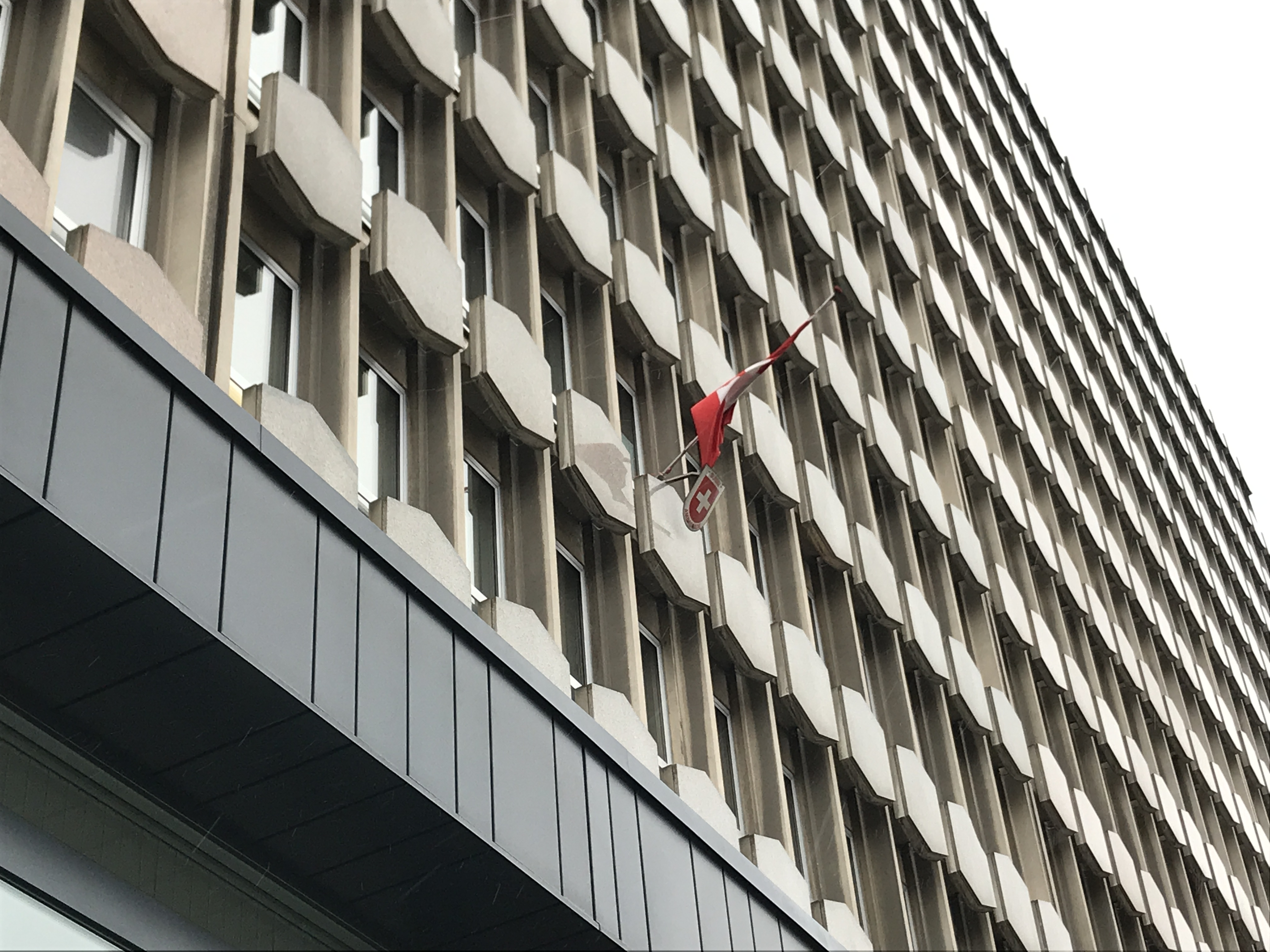 Embassy of Switzerland in Luxembourg-City (Luxembourg); just next to the Consulate of Swaziland (same building).